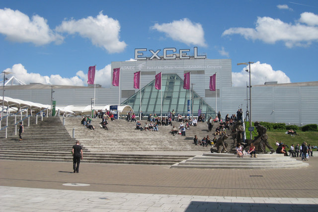 Excel Centre